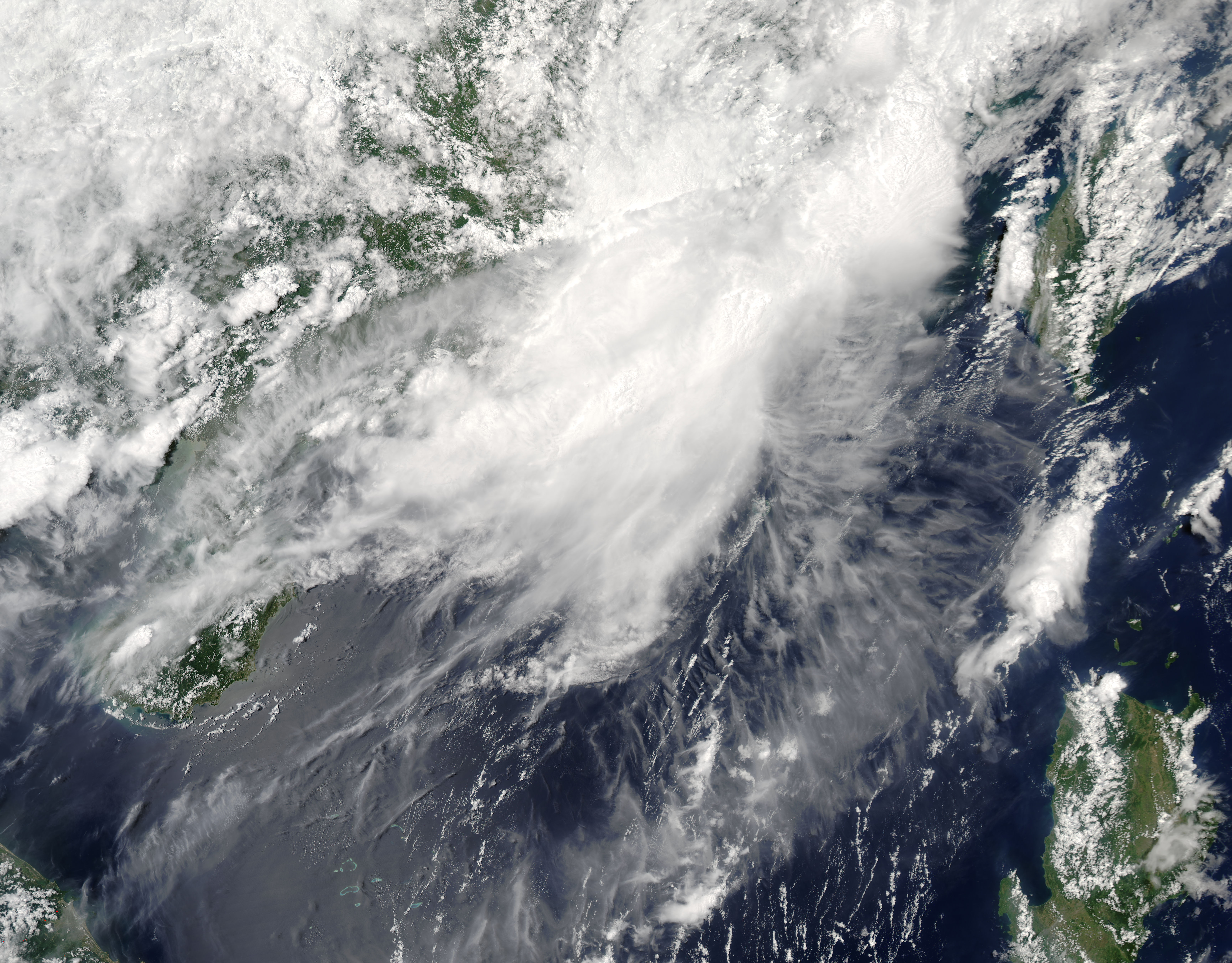 Tropical Storm Merbok (04W) over China